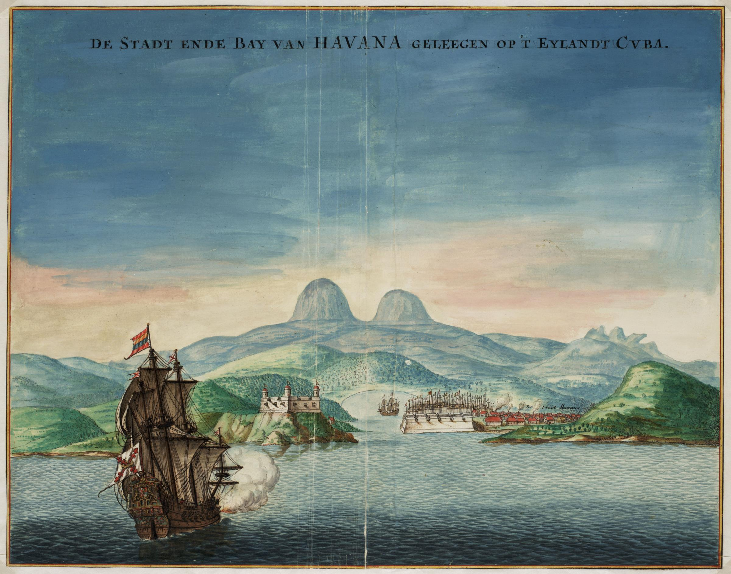 Title in the Leupe catalogue (NA): Gezicht op de baai en stad Havanna van de zeezijde. View of Havana. De Stadt ende Bay van Havana geleegen op 't Eylandt Cuba. Remarks: the chart forms part of the Vingboons Atlas. Cf. Bibliothèque nationale de France, Paris, inv. nr. VD 20 Fol. T4-P185030 and VD 26 FT6 T1-P197942.